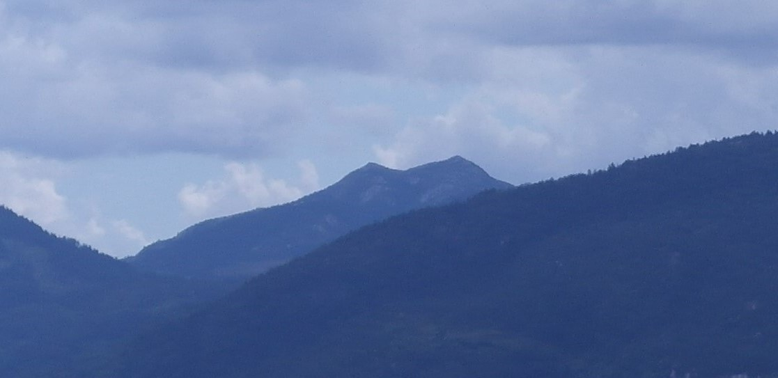 Kollingan (909 m), as seen from Tveitgrendi, Kviteseid